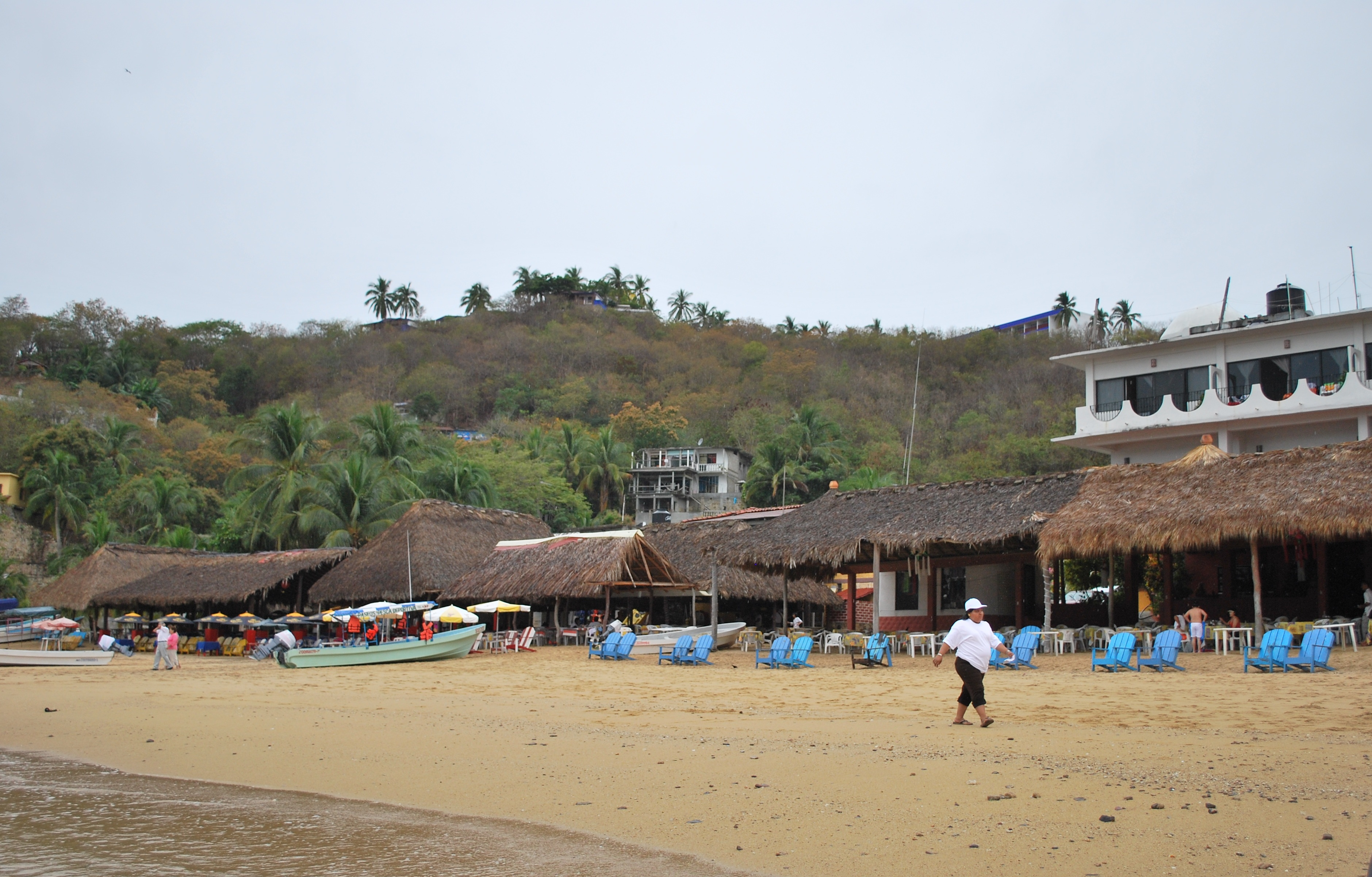 View of Playa Panteón, Puerto Angel, Oaxaca